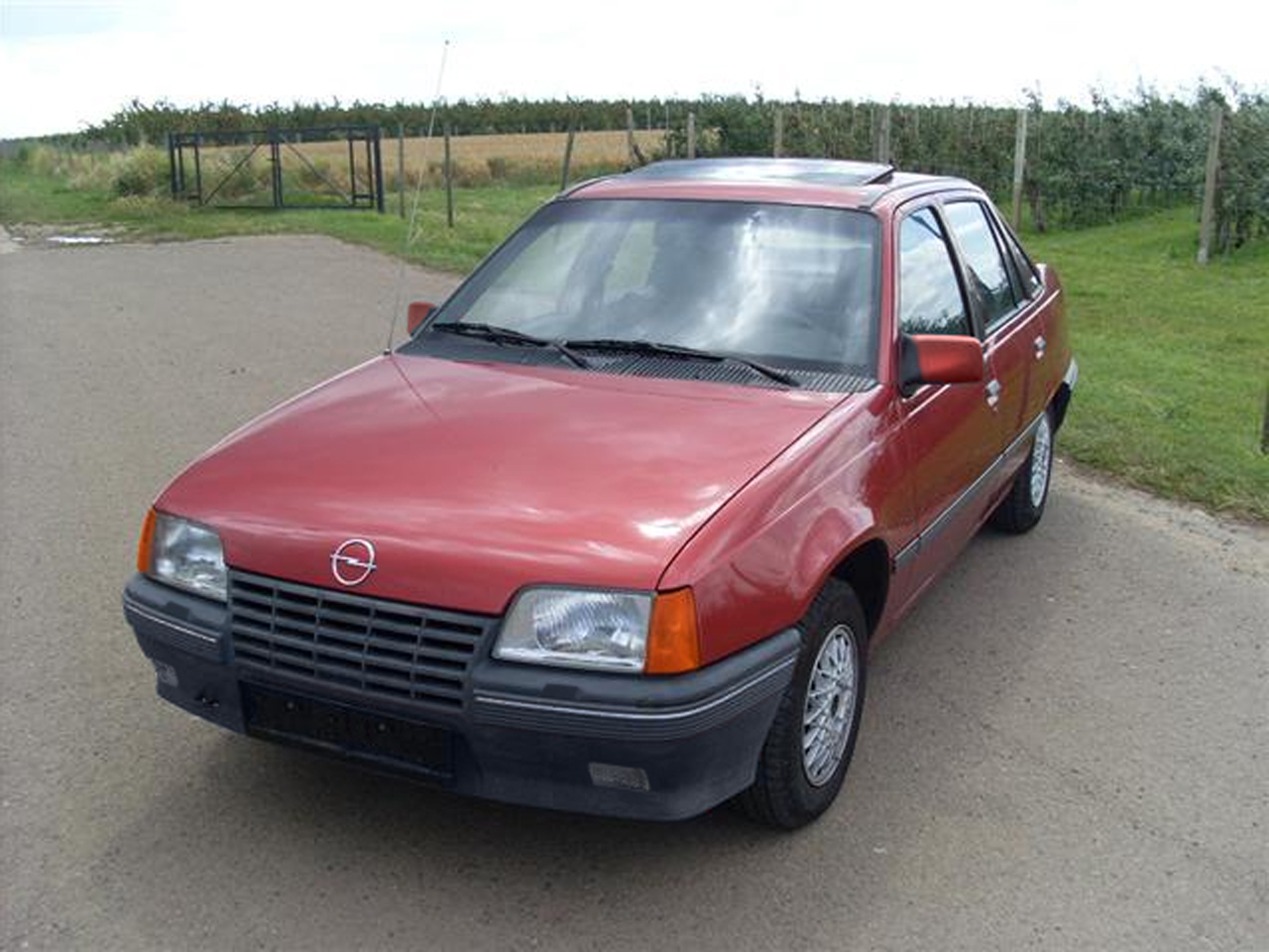 An Opel Kadett Tiffany